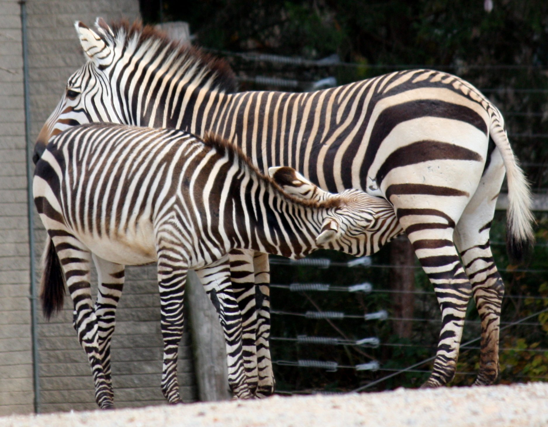 Nursing Hartmanns Mountain Zebra